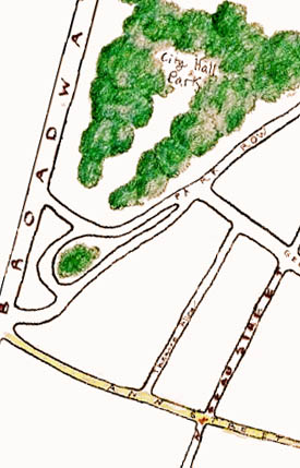 Drawing by futurebird of ann street in manhattan, New York City. Showing City hall park in relation to Ann Street.